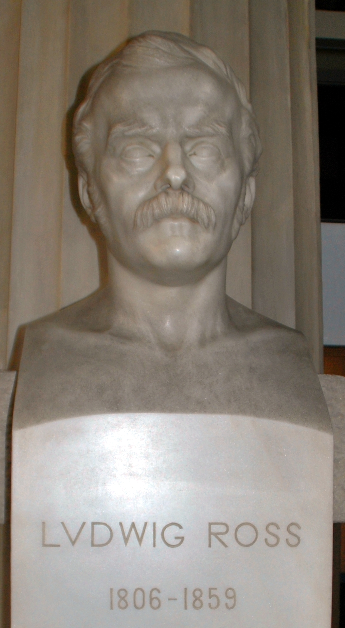 Library of the German Archaeological Institute in Athens.